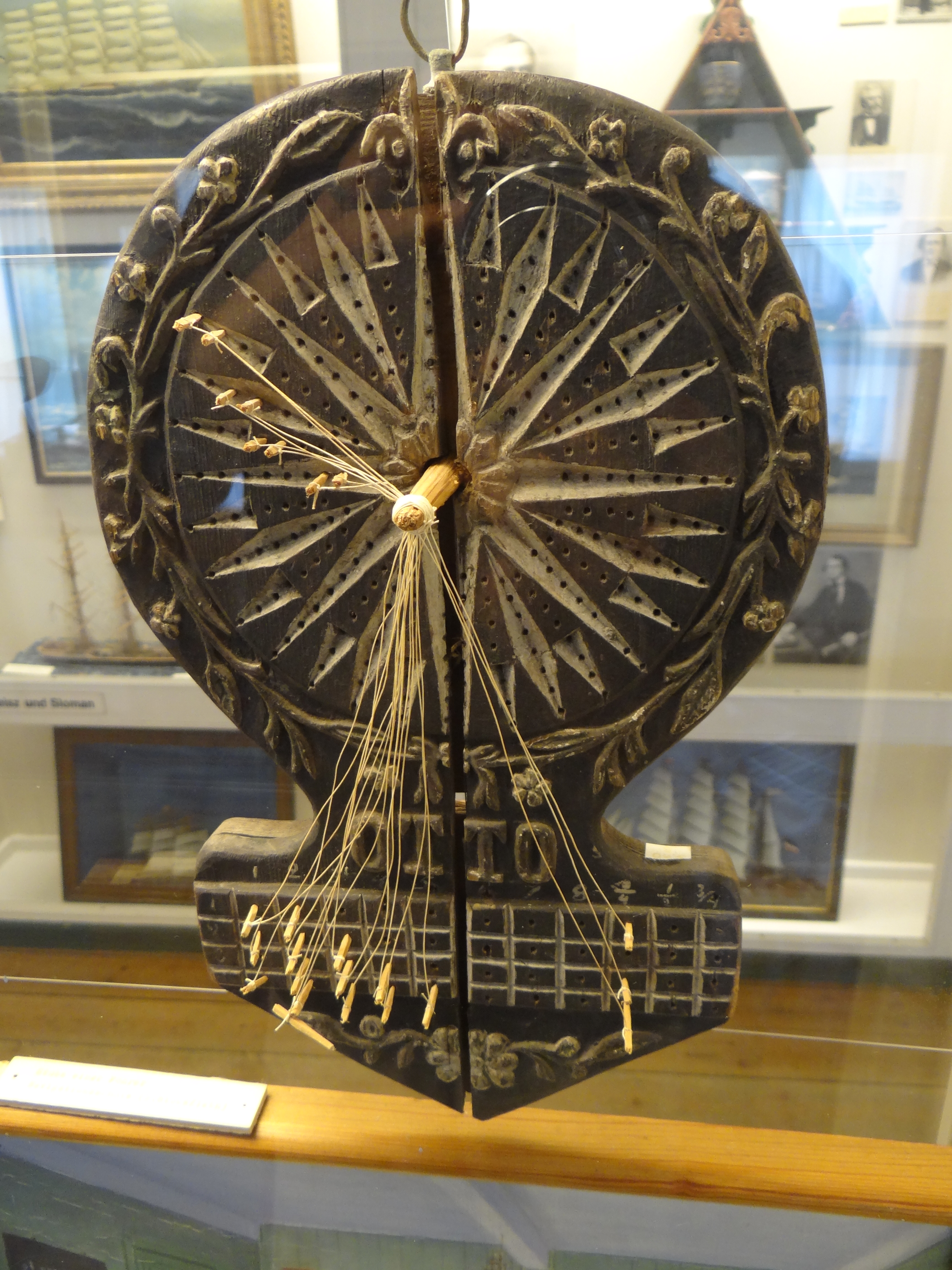 Traverse borad. Photo taken in the Friesenmuseum (Frisian Museum) in Wyk on the island of Föhr, Germany